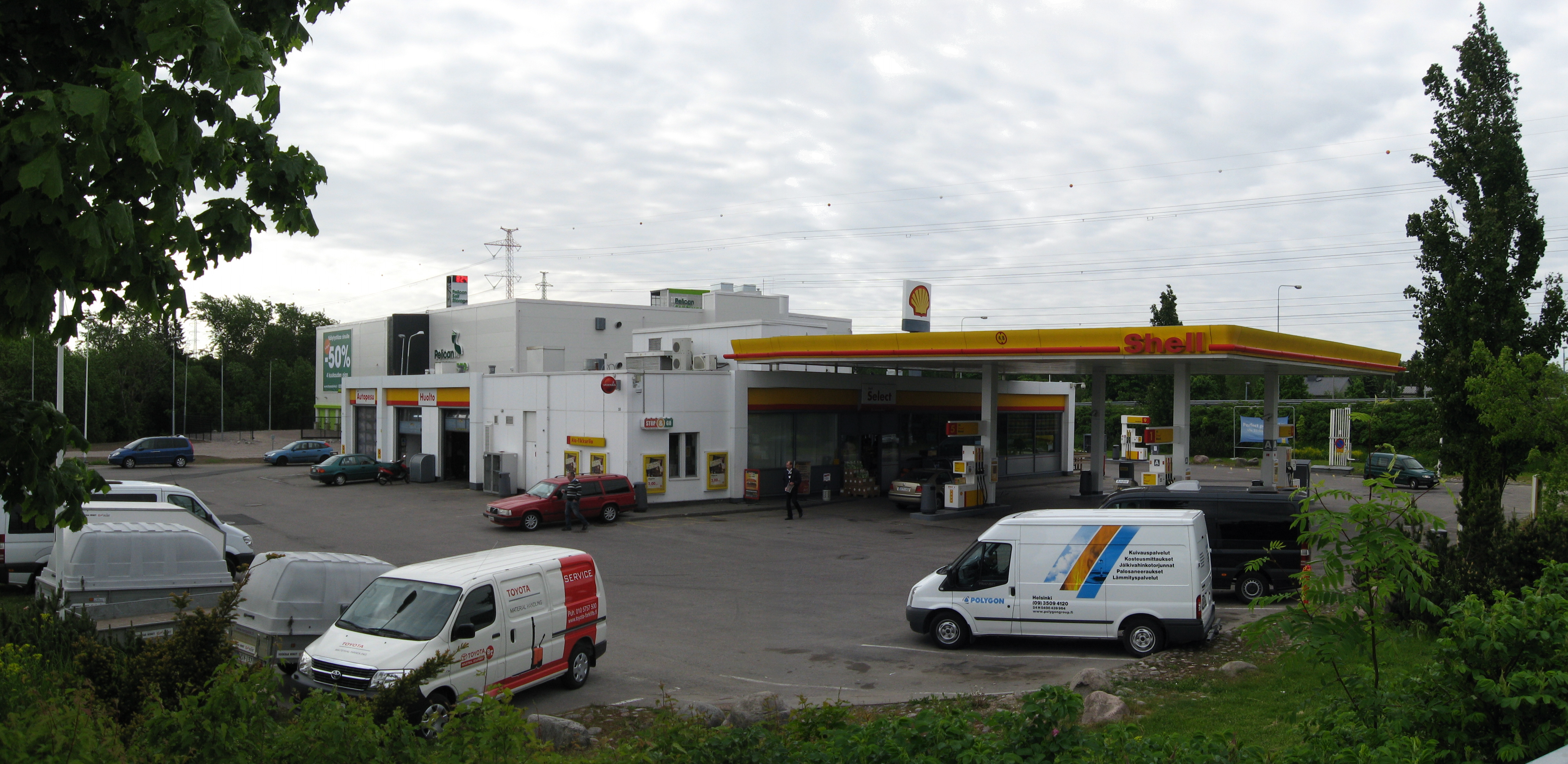 Petrol station Shell Ala-Tikkurila, Helsinki, Finland.